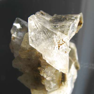 hyalophane crystal on matrix from Busovaca, Bosnia